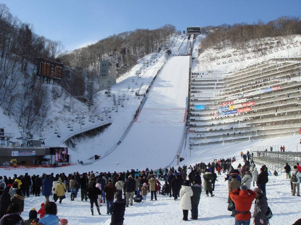 Ohkurayama Schanze of Ski jumping contest 1972 Sapporo Olympic